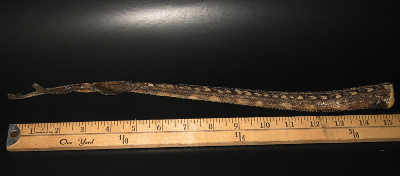 Raja clavata tail